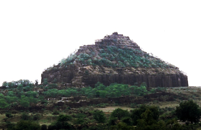 Own Pic